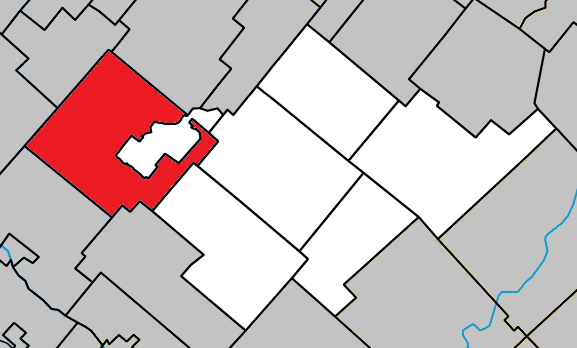 Location of Danville, Quebec within Les Sources Regional County Municipality.